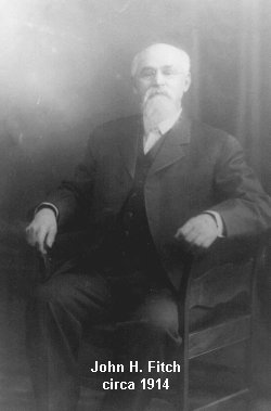 Picture of John H. Fitch